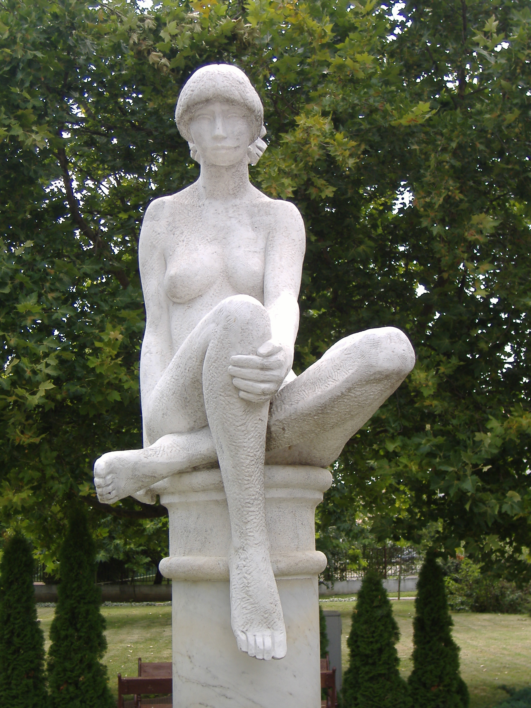 The main figure of the Muses' Fountain sitting in a column in Makó, Hungary.